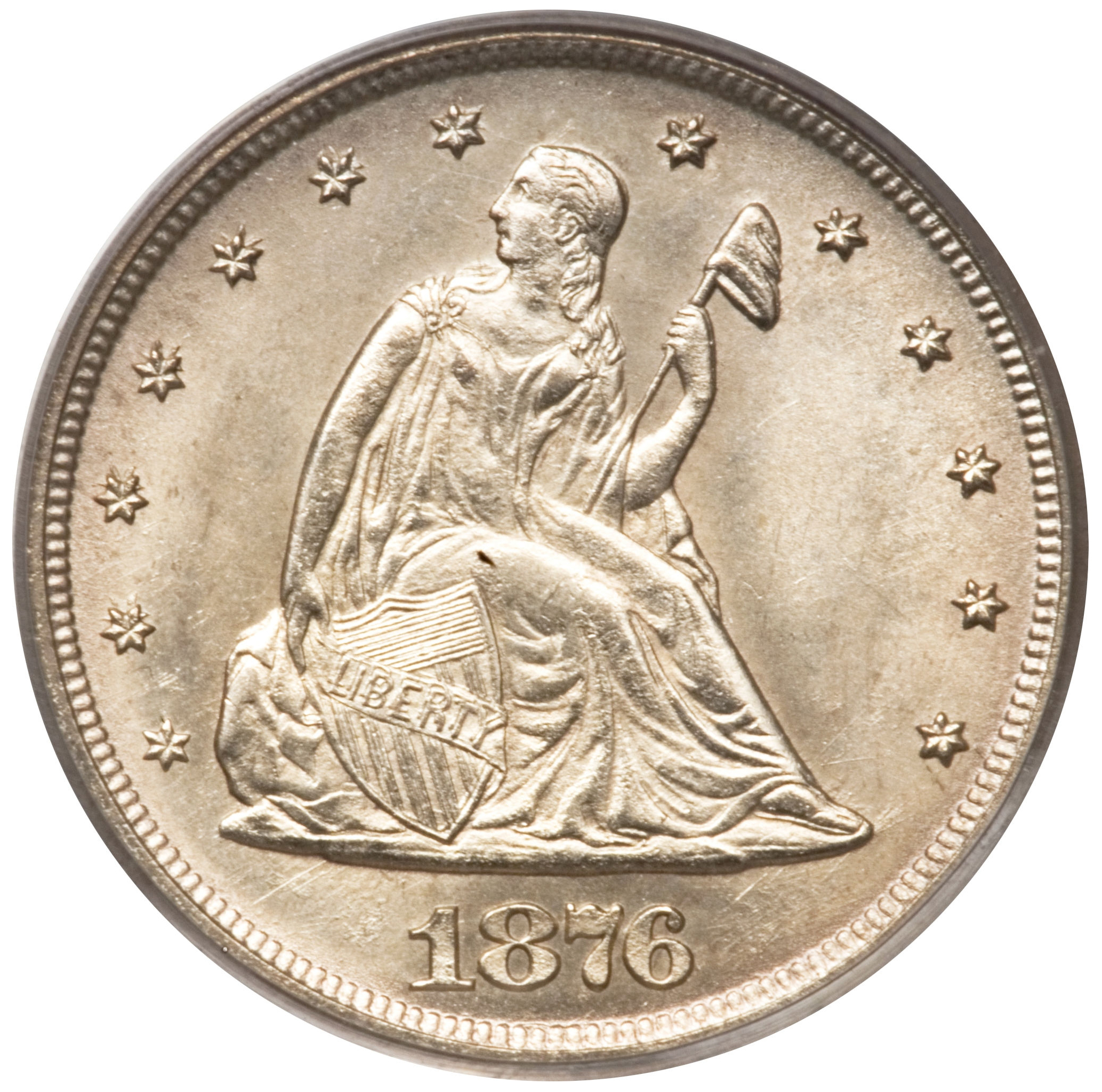 1876-CC 20C (obv) (1124-2299)